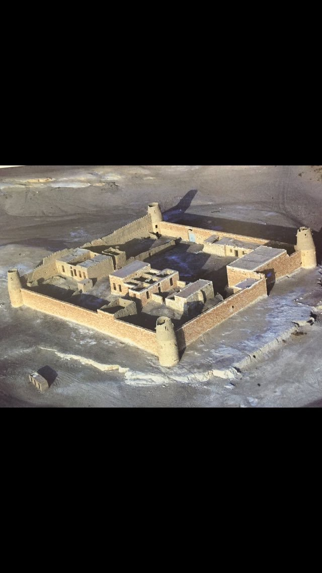 قصر الأمير نواف بكاف